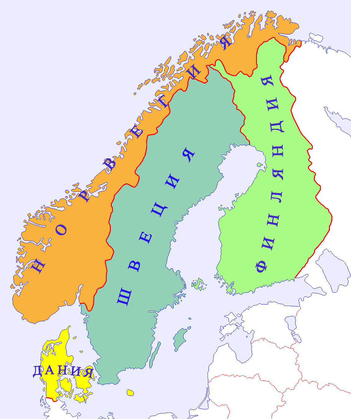 Nordic Countries: Denmark, Sweden, Norway and Finland.